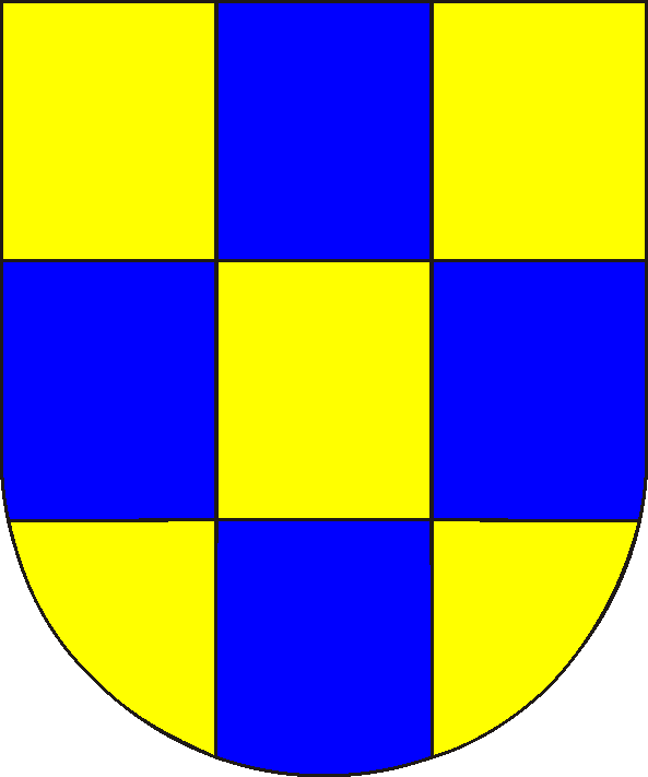 coats of arms of the county of Geneve